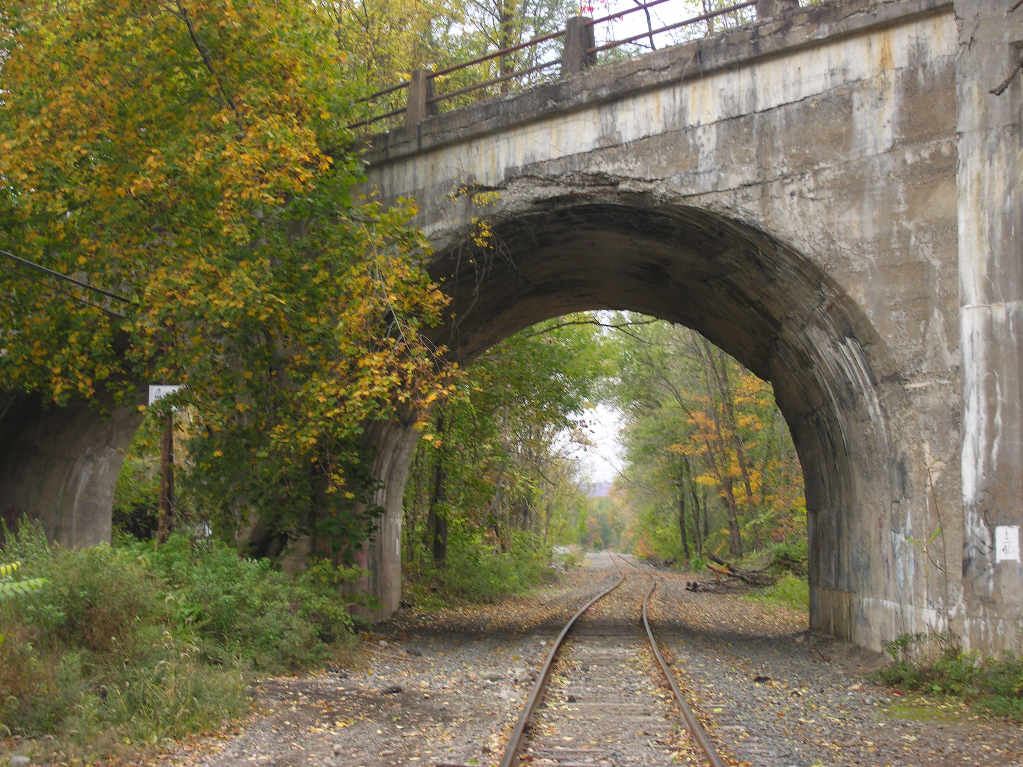 Old Road under Lackawanna Cut-Off south of Slateford, Pennsylvania. October 22, 2006.